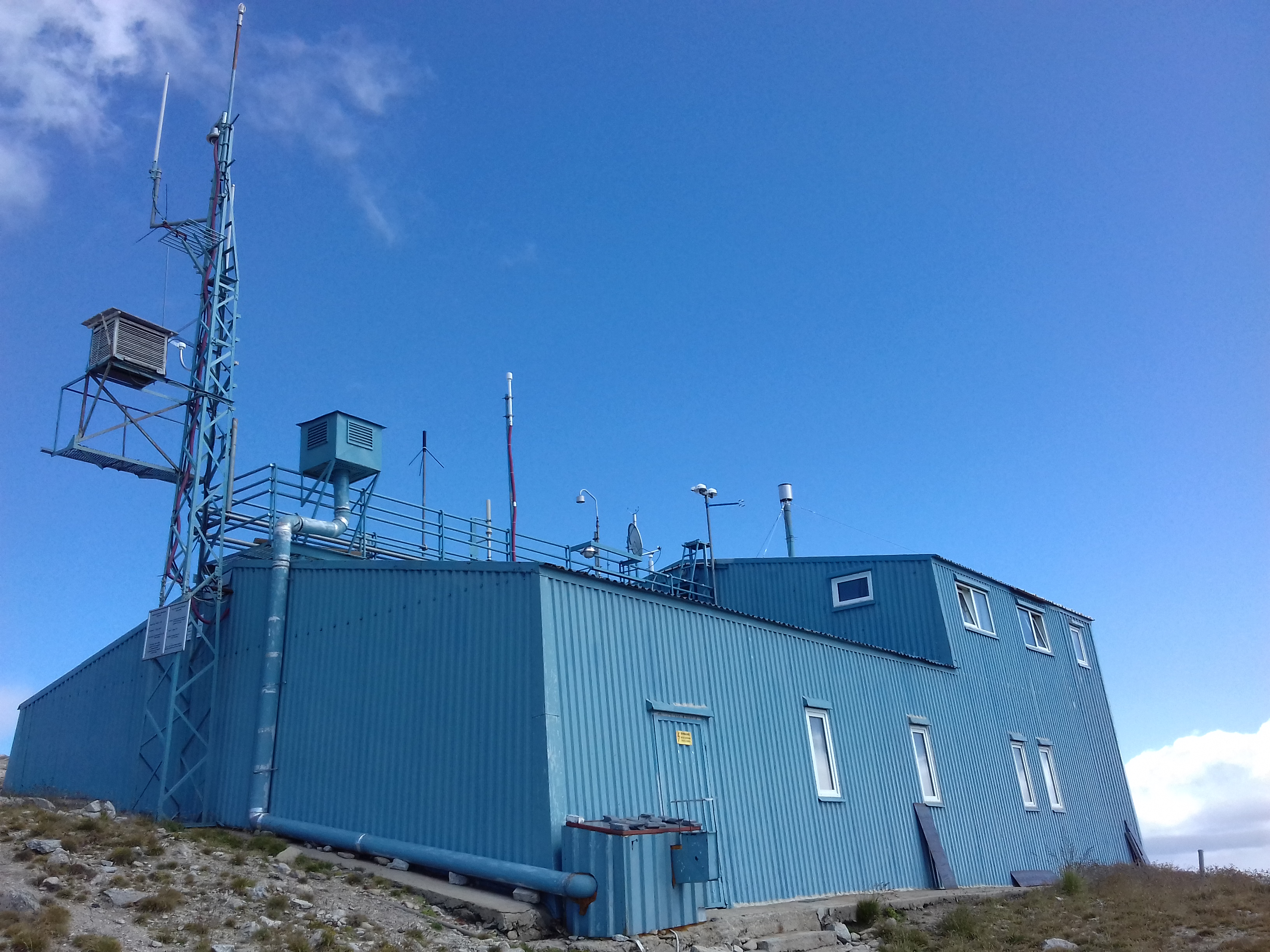 Basic Environmental Observatory - Musala, Bulgaria